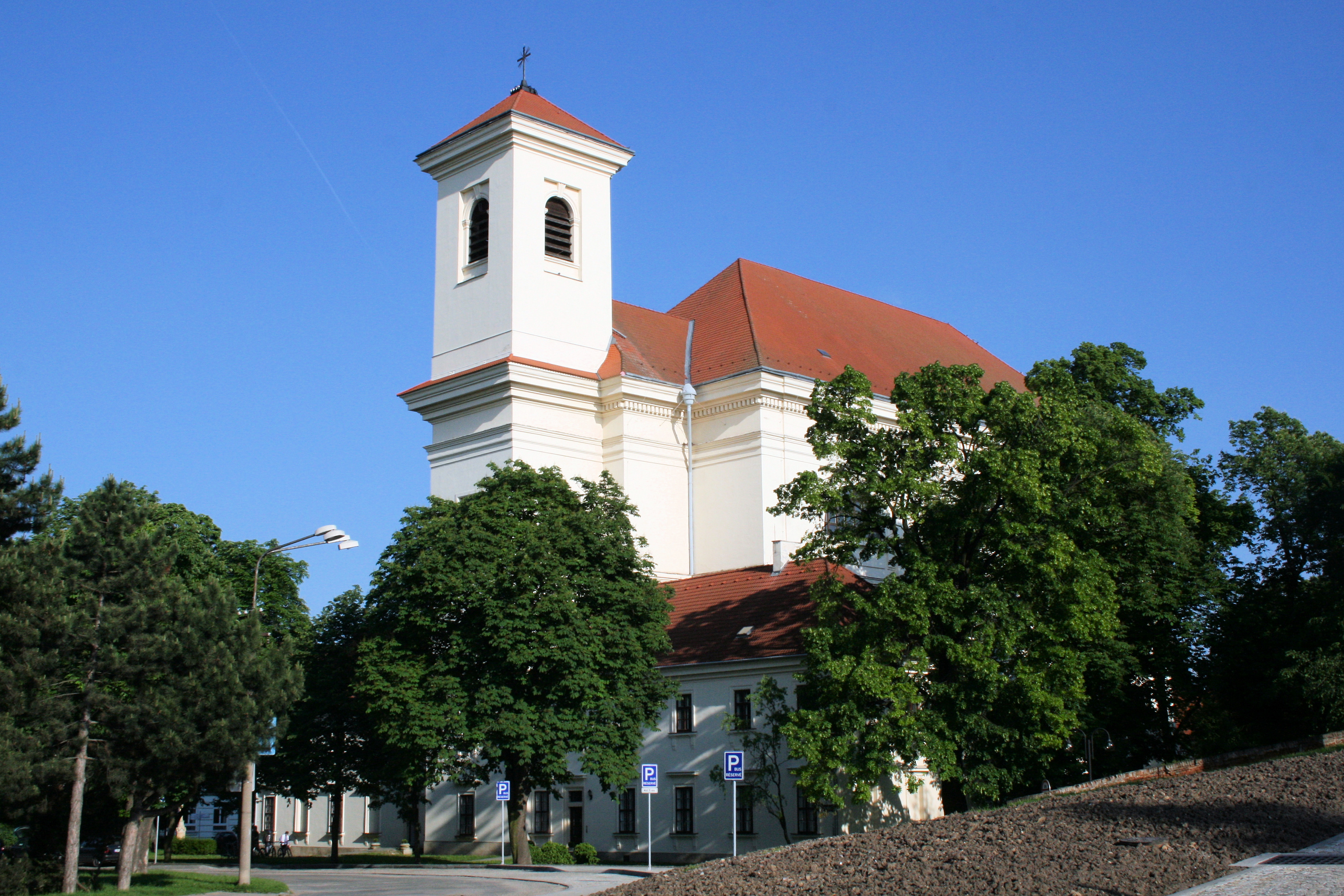 Church of the Resurrection of the Lord, Slavkov u Brna (Austerlitz), Czech Republic. Česky: Kostel Vzkříšení Páně ve Slavkově u Brna. Celkový pohled na věž kostela s farou od severozápadu.